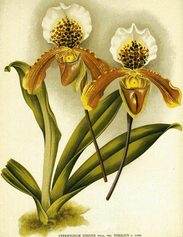 Paphiopedilum insigne f. insigne